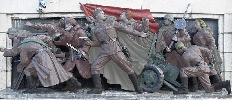 Monument to the Soviet Army